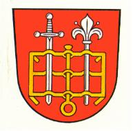 coat of arms of Westhausen/Thuringia/Germany